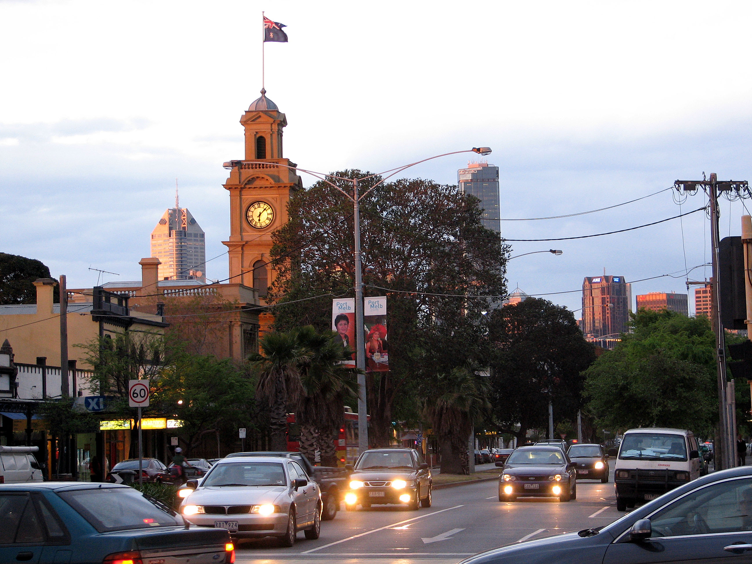 Bay Street, Port Melbourne, 6:00pm, 27th September 2007